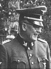 Lothar Debes in his uniform.